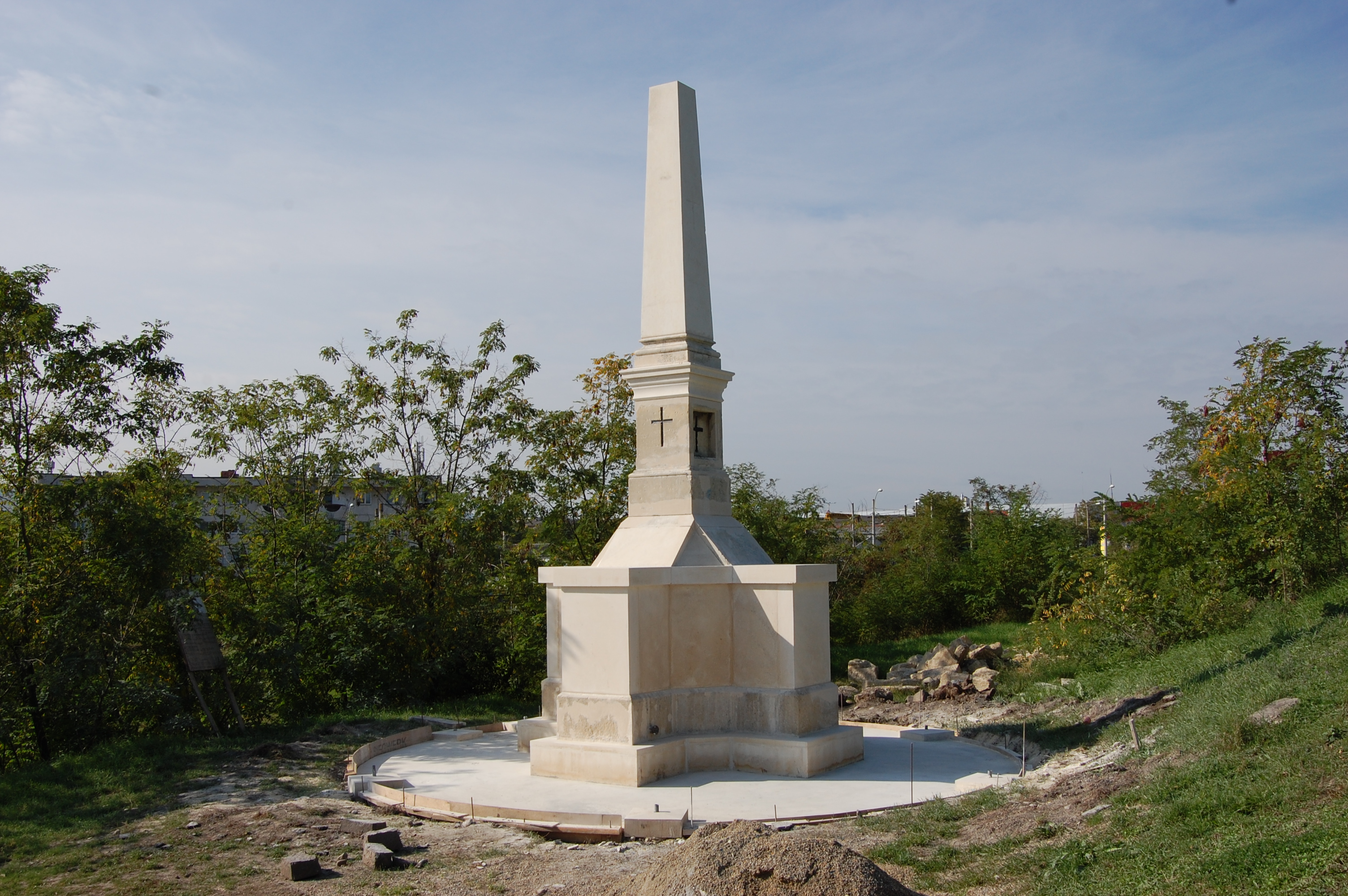 Monument for the Hungarian revolutionary heros TAMÁS András and SÁNDOR László executed in 1849 by Austrian authority